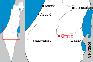 Localization of Metar within Israel.